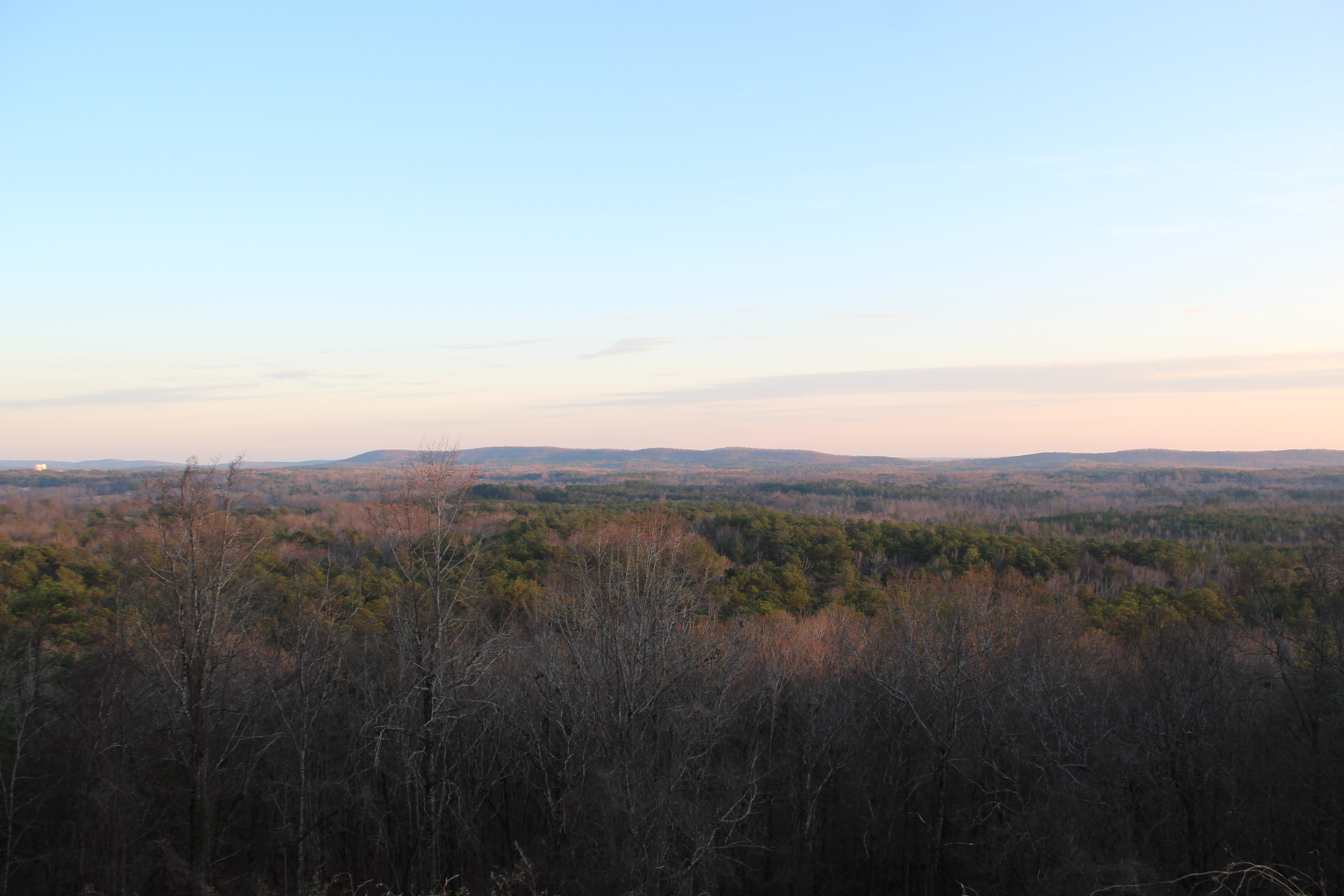 View of Harris County, across the street from the Callaway Gardens Country Store